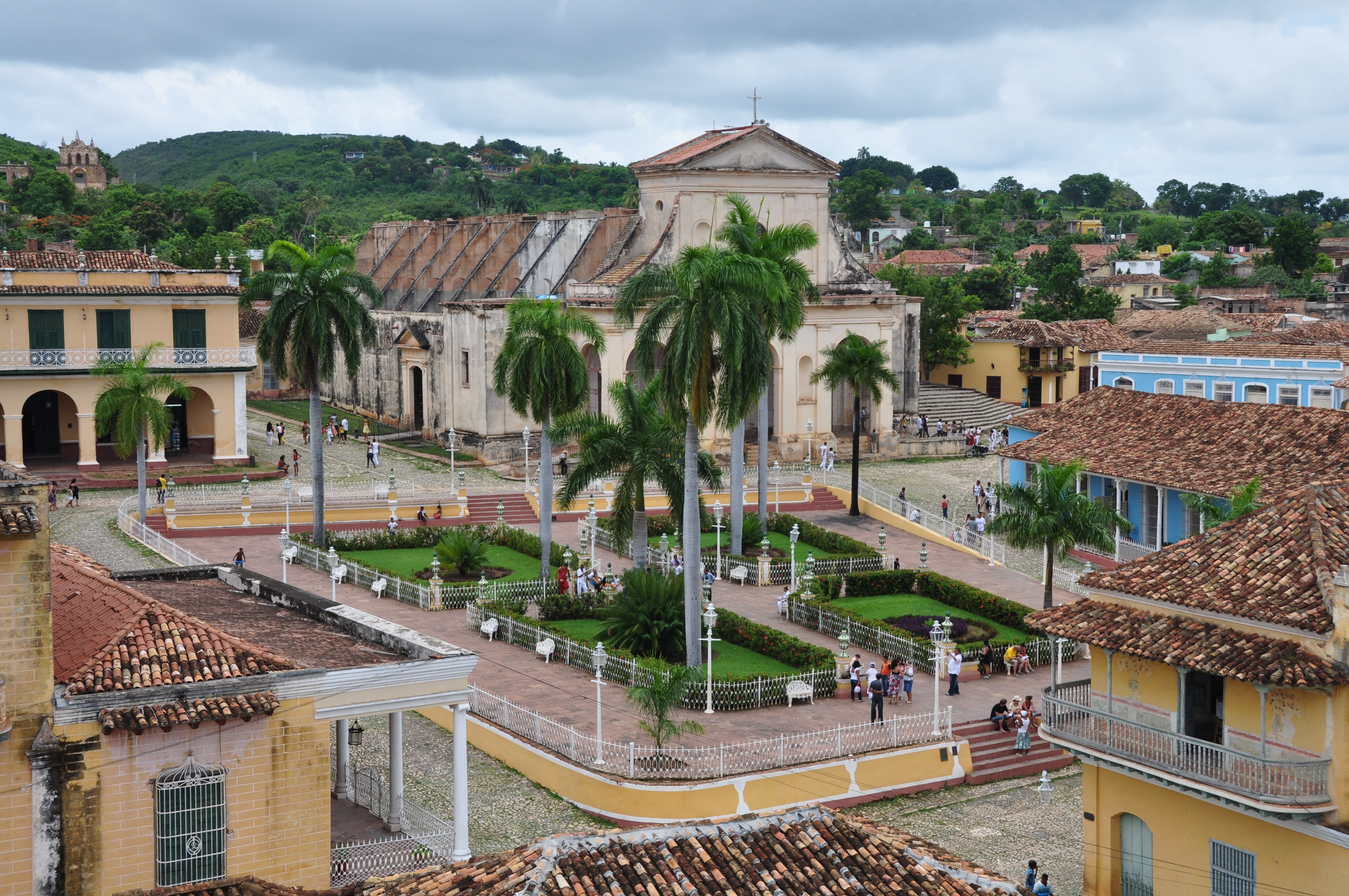 The Plaza Mayor in Trinidad, Cuba